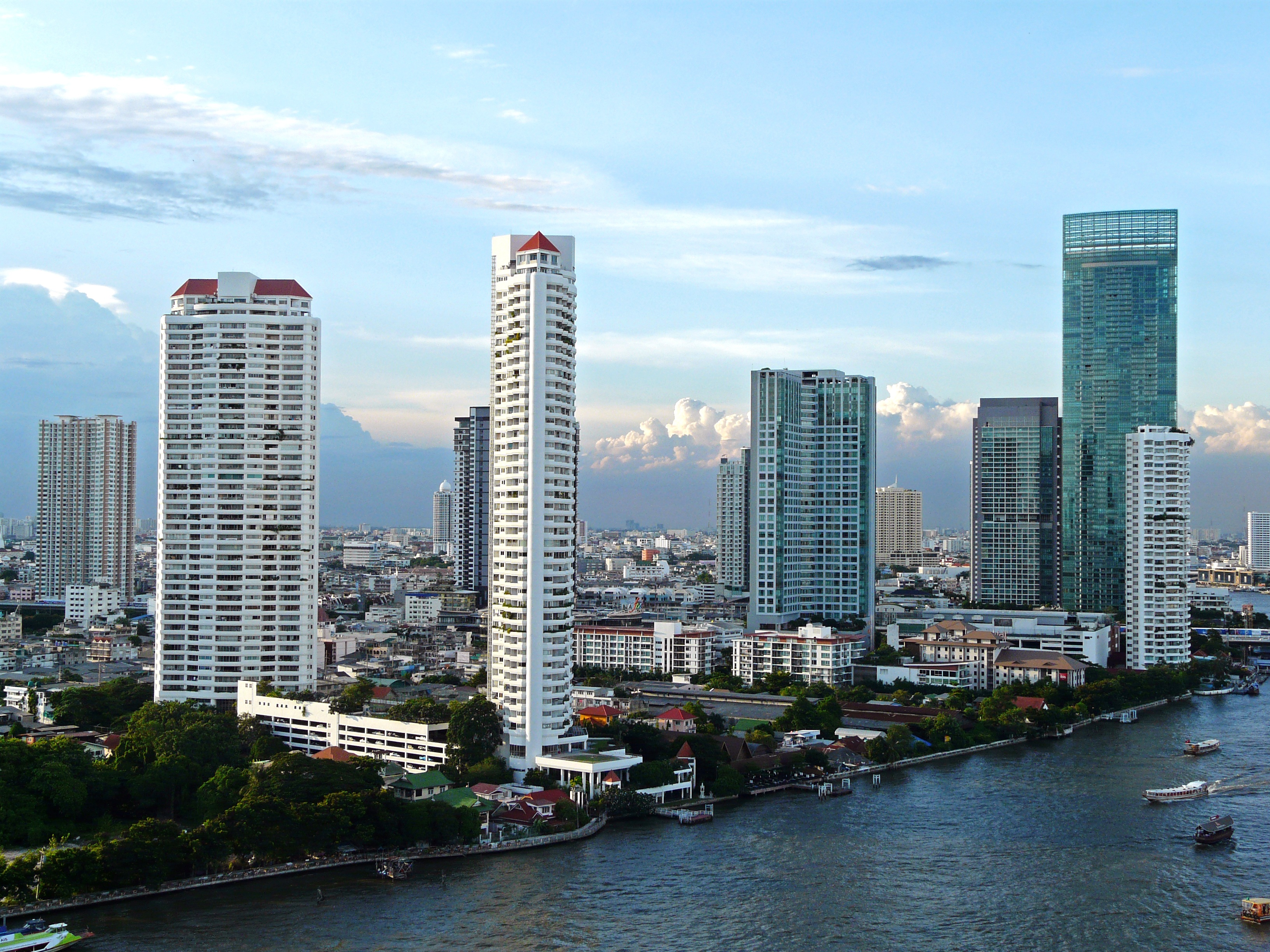 Thonburi bank of Chao Phraya River in Bangkok, with Saichol Mansion, Ideo Sathorn-Taksin, Urbano Absolute, River South Tower, Supakarn Condominium (from left to right)